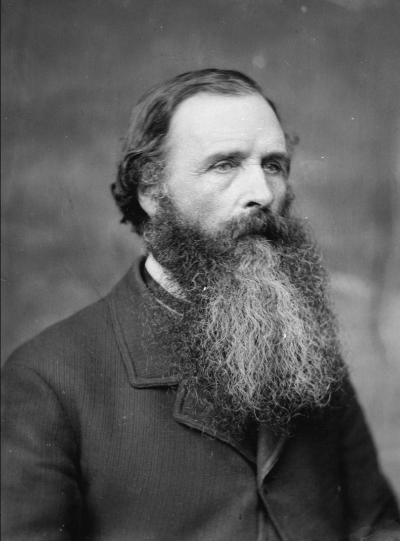 1 negative : glass, wet collodion, b&w ; 11 x 16.5 cm.